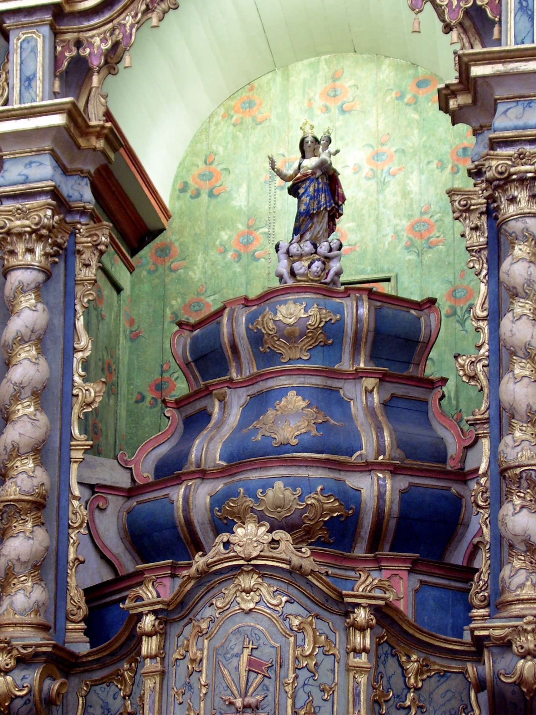 Principal altar of the Church Our Lady of the Rosary and Saint Benedict, with the image of Our Lady of the Rosary (in the central niche), in Cuiabá, Mato Grosso, Brazil.